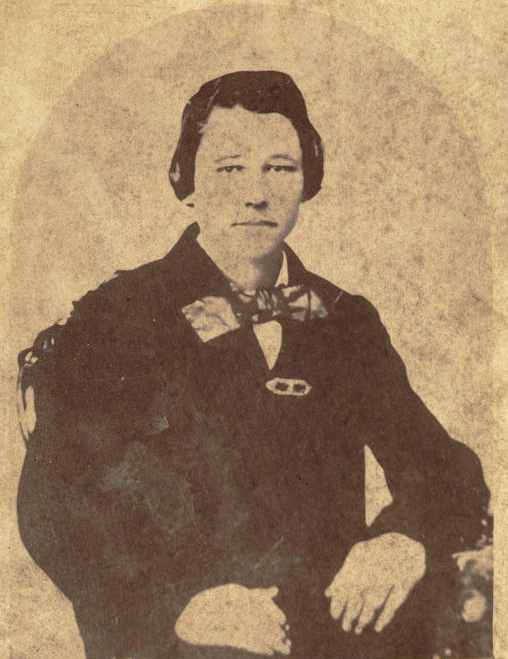 Henry Lawson Wyatt, the first Confederate soldier from North Carolina to be killed in the American Civil War. From the dedication of a monument to his memory on the State Capital grounds (Union Square) in 1910.